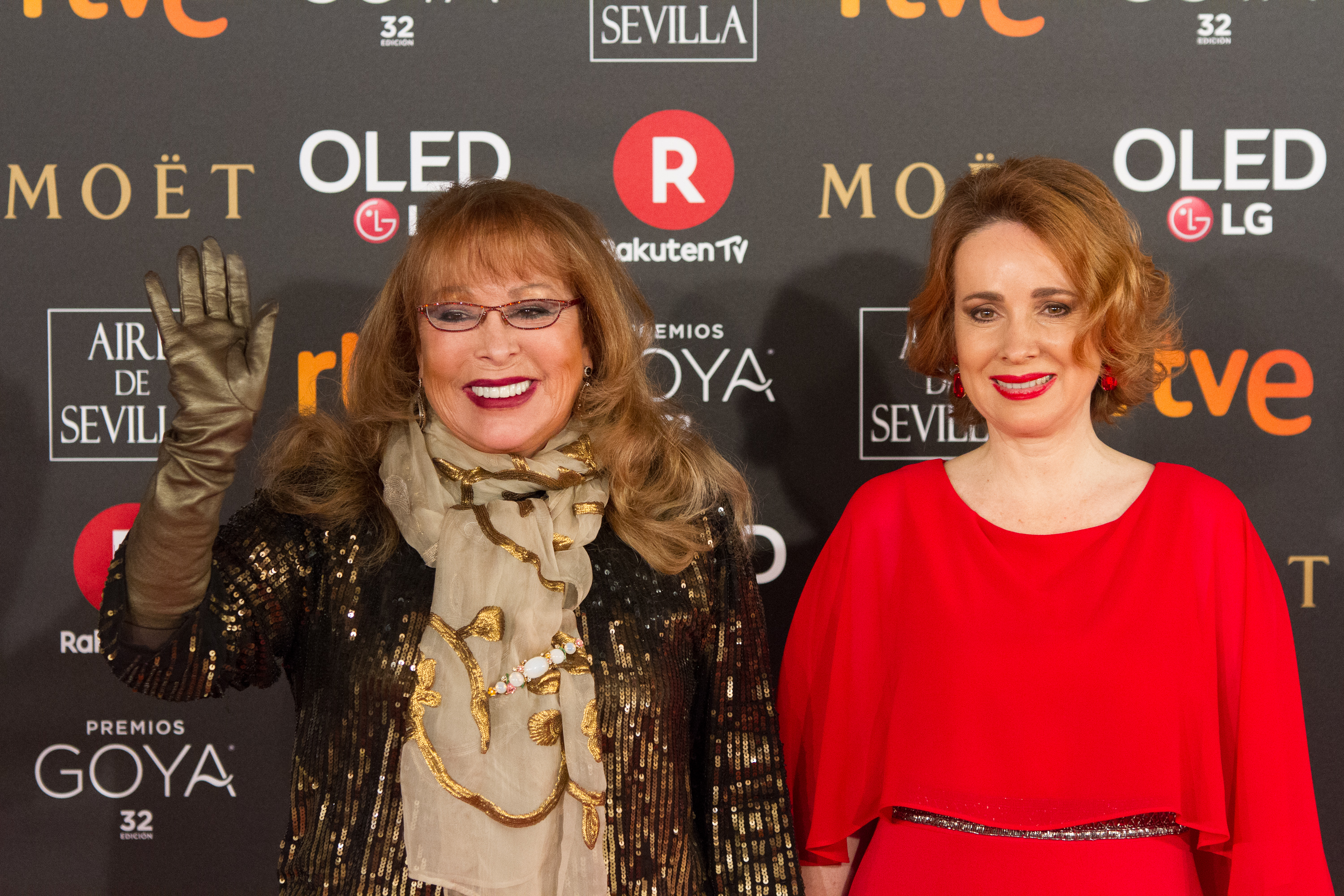 32nd Goya Awards, 2018.